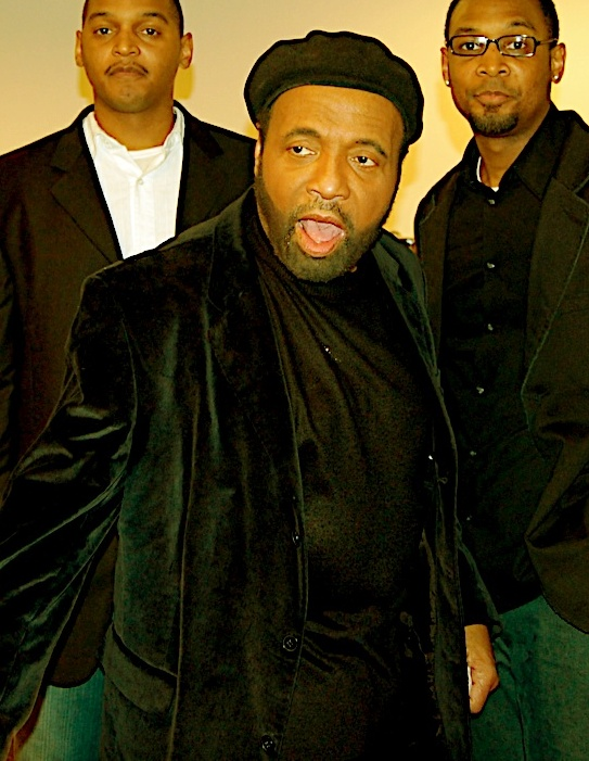 Andraé Crouch before a concert in Sandnes, Norway.